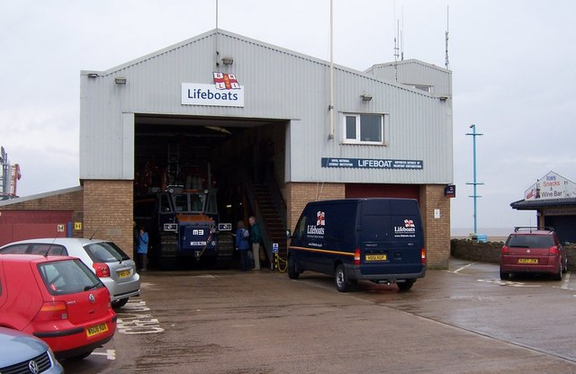 Lifeboat Station - Skegness It is quite a long haul to the sea for lifeboat, if the tide is out.